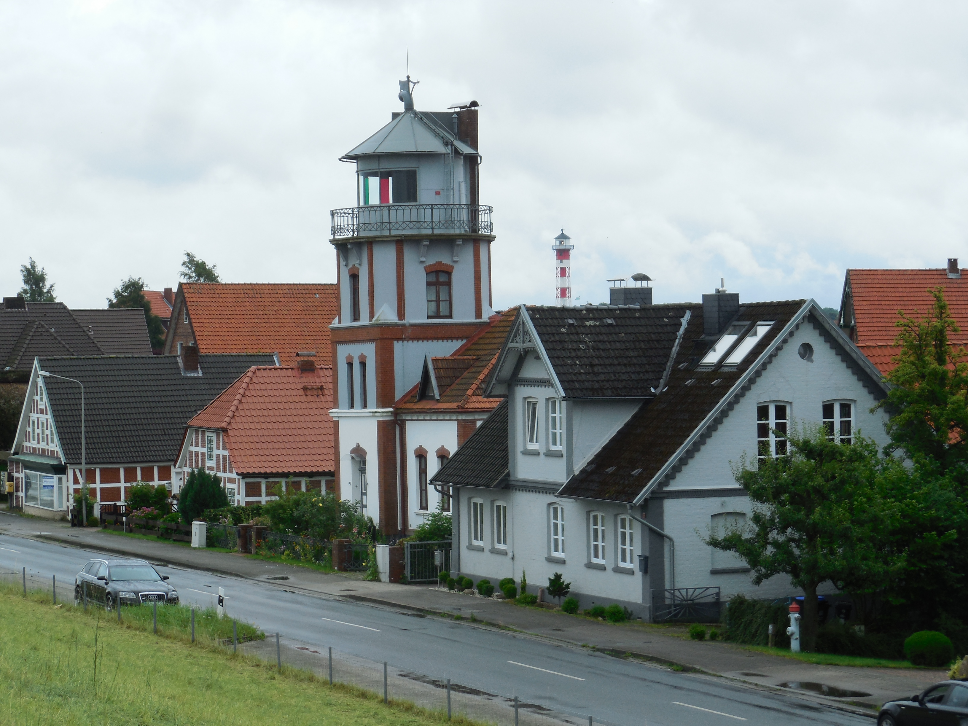 Former Lühe lighthouse 2017